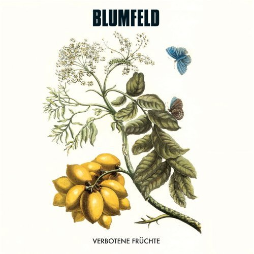 This album cover is a reproduction of a picture of Spondia purpurea by Maria Sibylla Merian — Butterfly on a Spanish Plum.